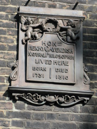 Plaque in Bloomsbury comemorating the secretive life of Henry Cavendish who died one of the wealthiest men in England, leaving remarkably insightful scientific research papers influential in many future "discoveries".